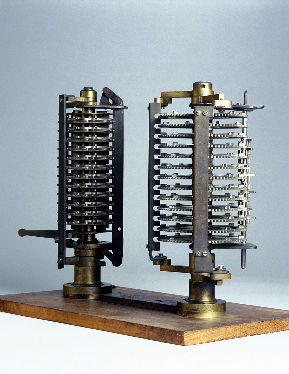 The British computing pioneer Charles Babbage (1791-1871) used trial models for various parts of his difference and Analytical engines. Babbage first conceived the idea of an advanced calculating machine to calculate and print mathematical tables in 1812. His Analytical Engine, conceived by 1834, was designed to evaluate any mathematical formula and to have even higher powers of analysis than his original Difference Engine of the 1820s. It was the first fully-automatic calculating machine, and the first built along modern lines. Babbage is considered to be the 'father' of computing for his invention.